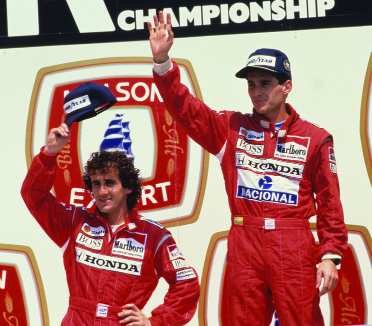 Ayrton Senna, Alain Prost and Thierry Boutsen at GP Molson du Canada in Montreal, Canada in 1988. (Cropped from original)